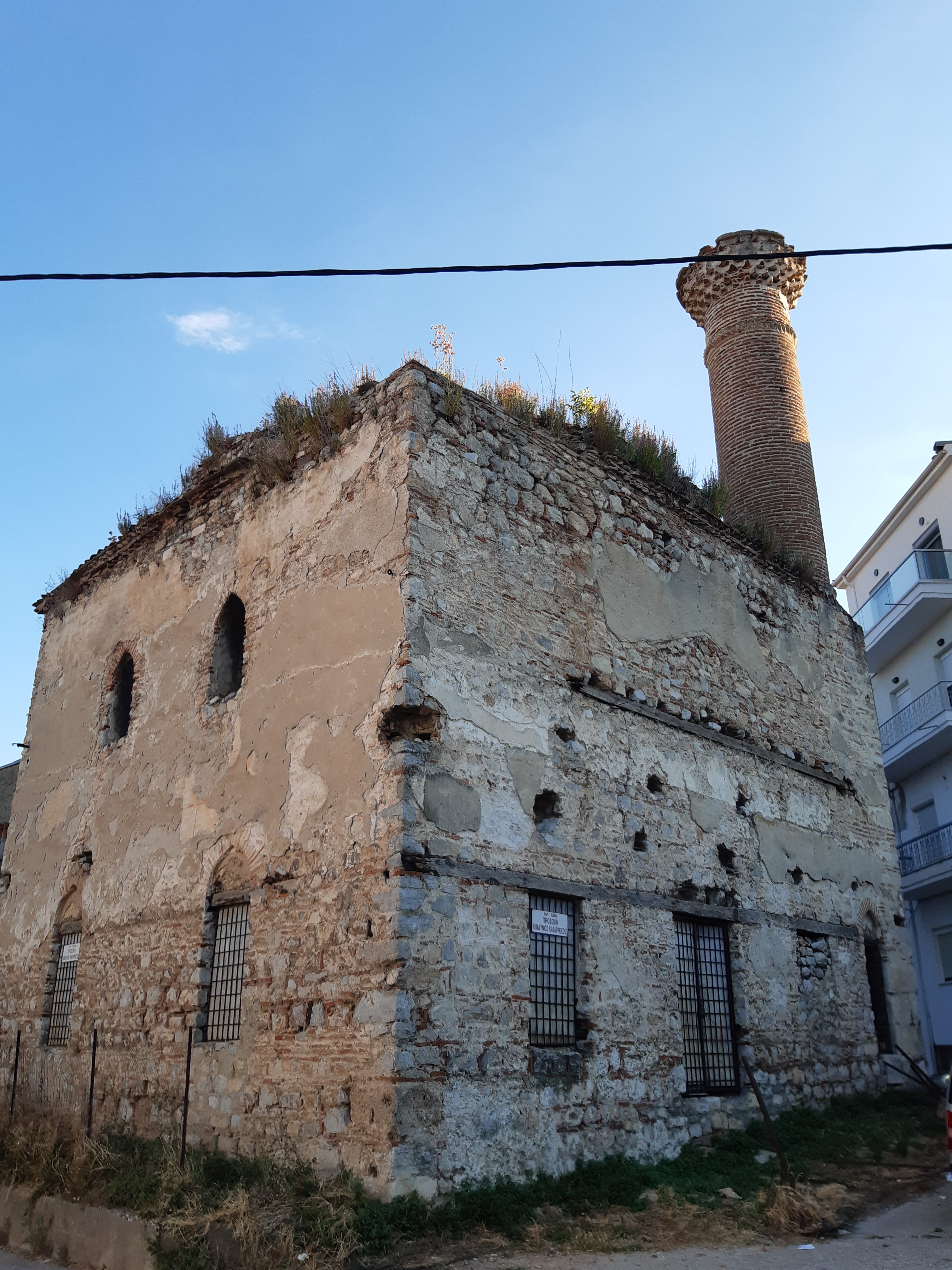 Kurşun Mosque, Kastoria